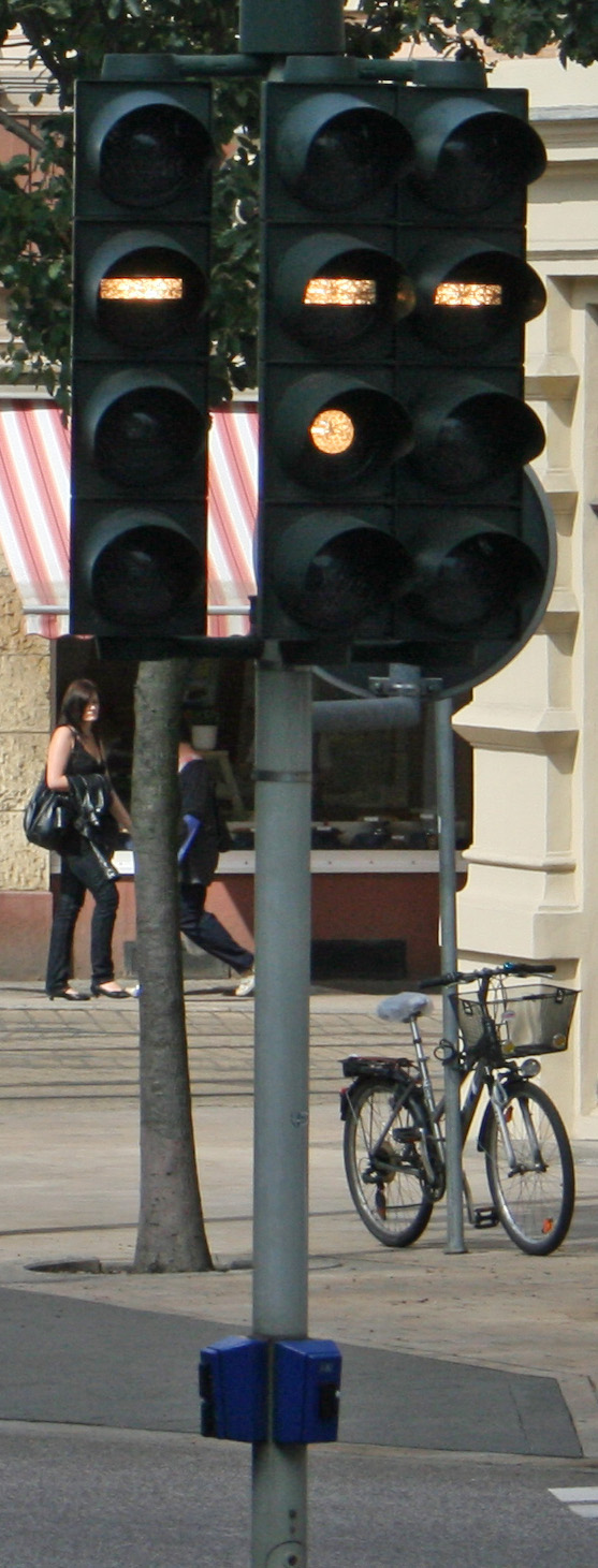 Tram signs in Germany: F for three different directions: left, straight on, and right